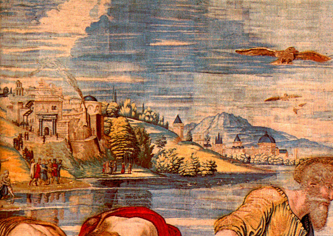 vatican hill painting ca. 1519